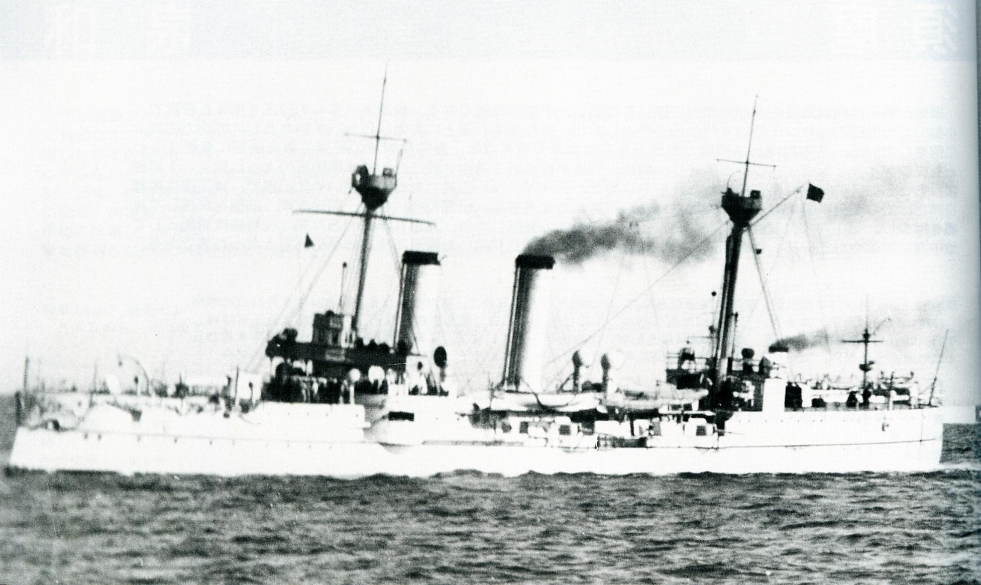 Japanese cruiser Suma firing salute off Osaka